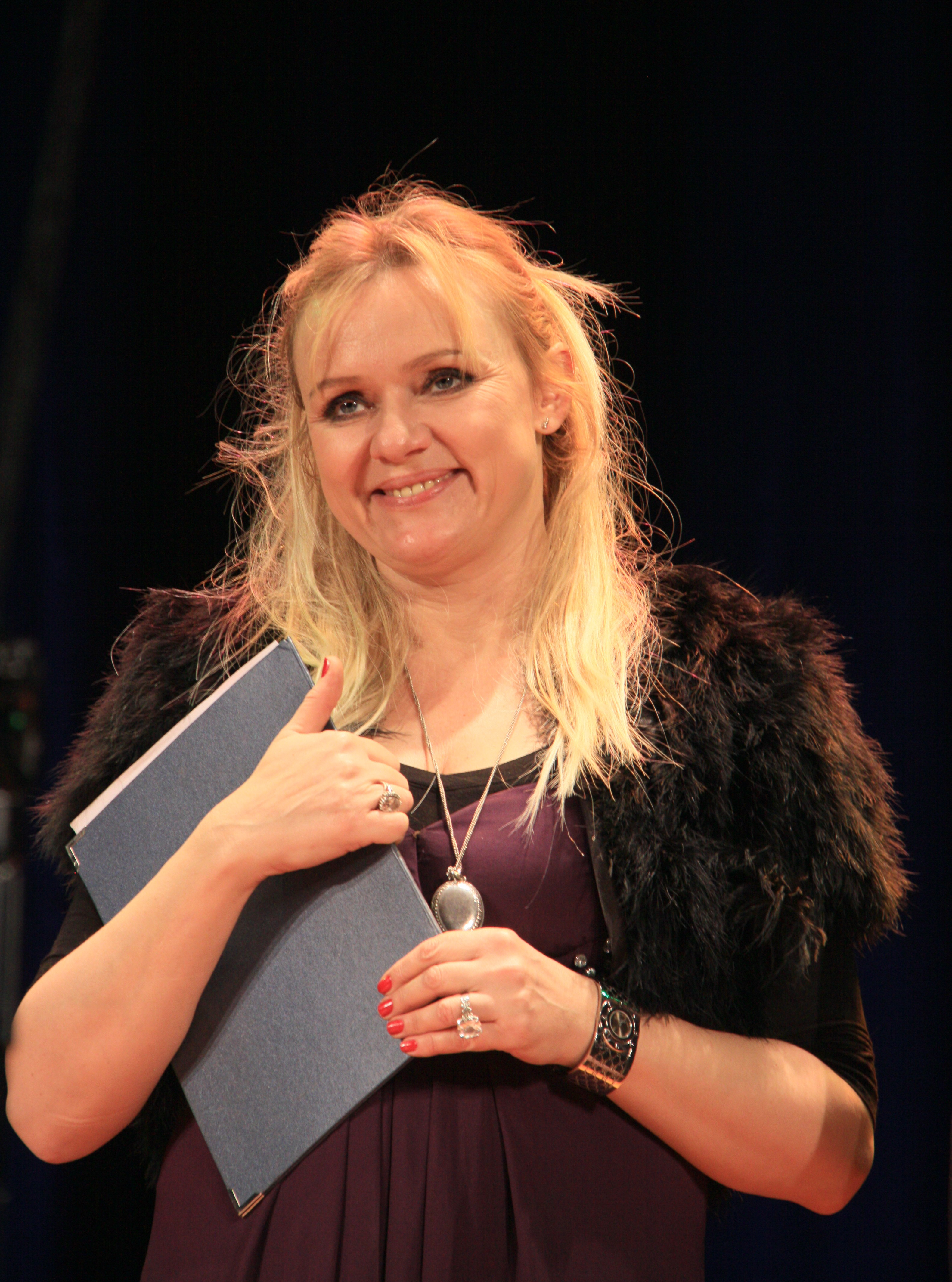 Rybarska Beata - Polish actress and cabaret artist. BSCK, Busko-Zdrój, 25 January 2012.